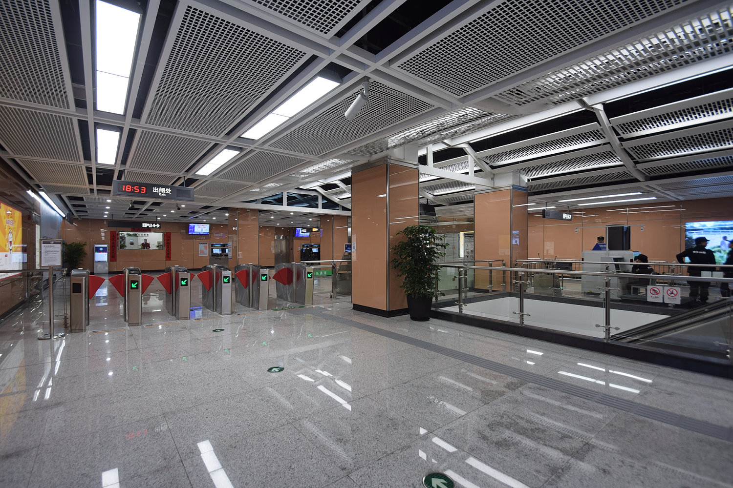 Line 1 Concourse of Tangbian Station, Xiamen Metro